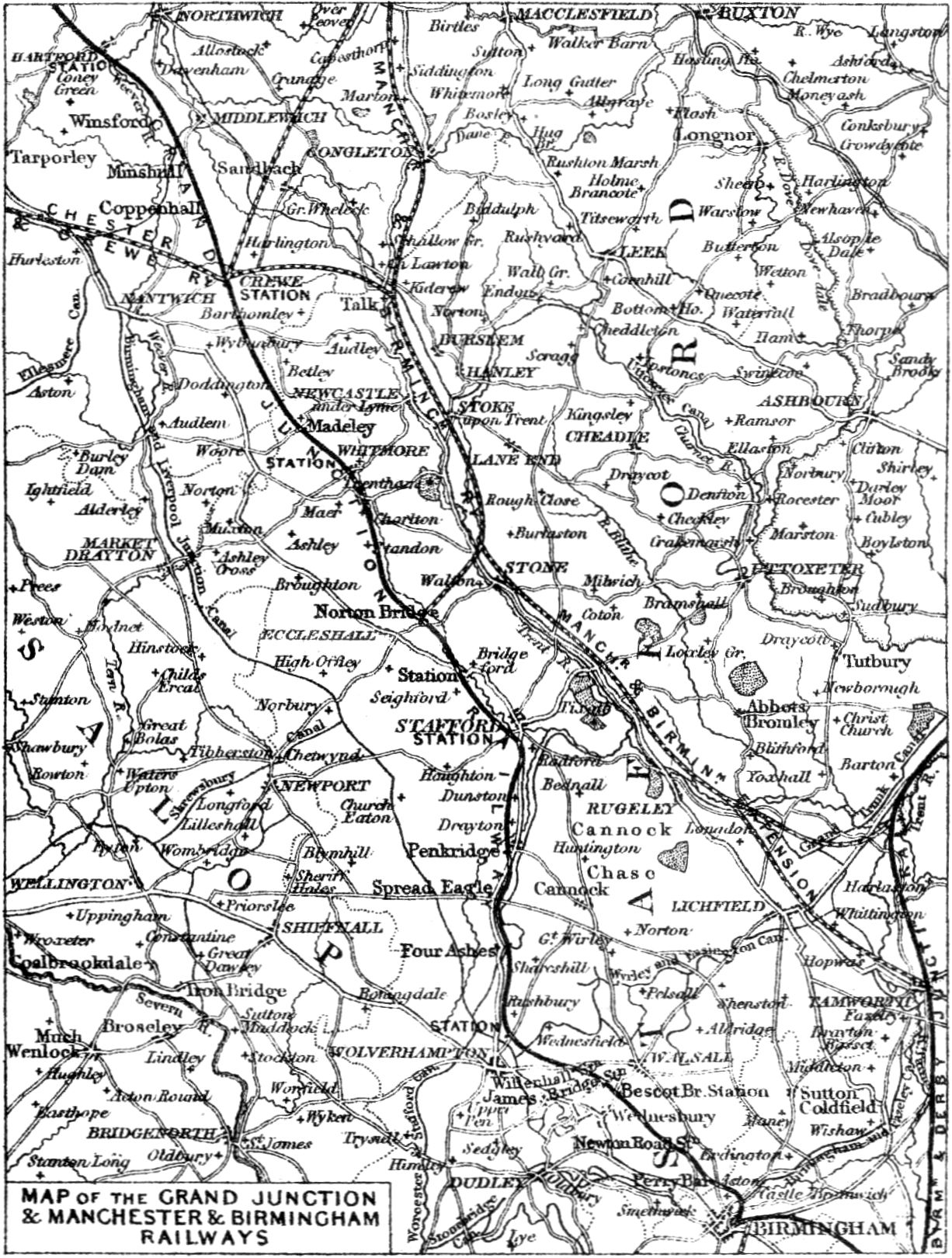 Map of the Grand Junction & Manchester & Birmingham Railways